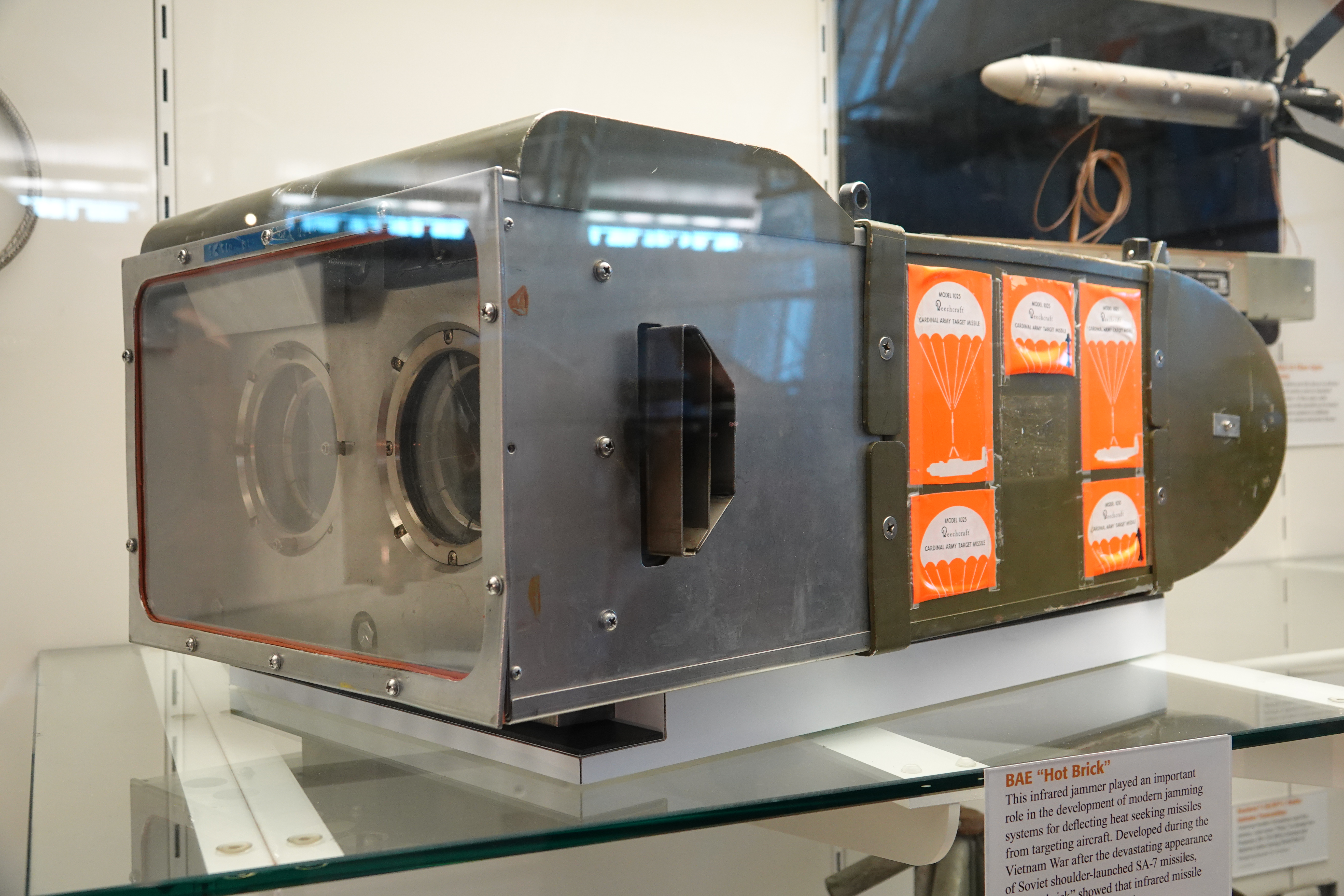 BAE Hot Brick This infrared jammer played an important role in the development of modern jamming systems for deflecting heat seeking missiles from targeting aircraft. Developed during the Vietnam War after the devastating appearance of Soviet shoulder-launched SA-7 missiles, the “hot brick” showed that infrared missile guidance could be disrupted. Picture taken at the National Air and Space Museum's Steven F. Udvar-Hazy Center in Chantilly, Virginia, USA. -- Gift of BAE Systems